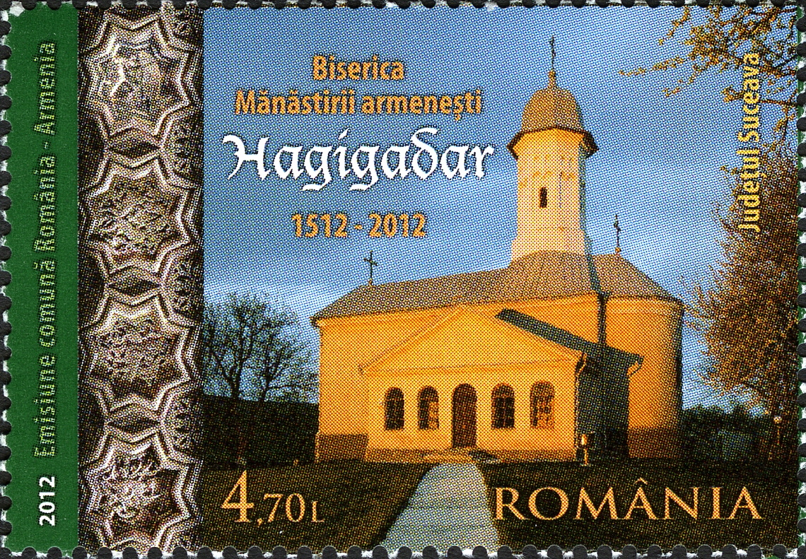 Stamps of Romania, 2012